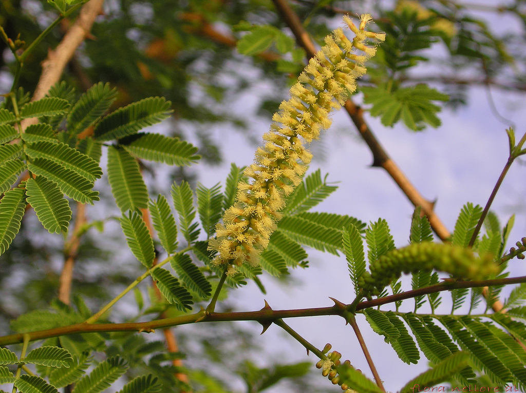 Acacia chundra Photographed at Eastern Ghats of Nellore district, India